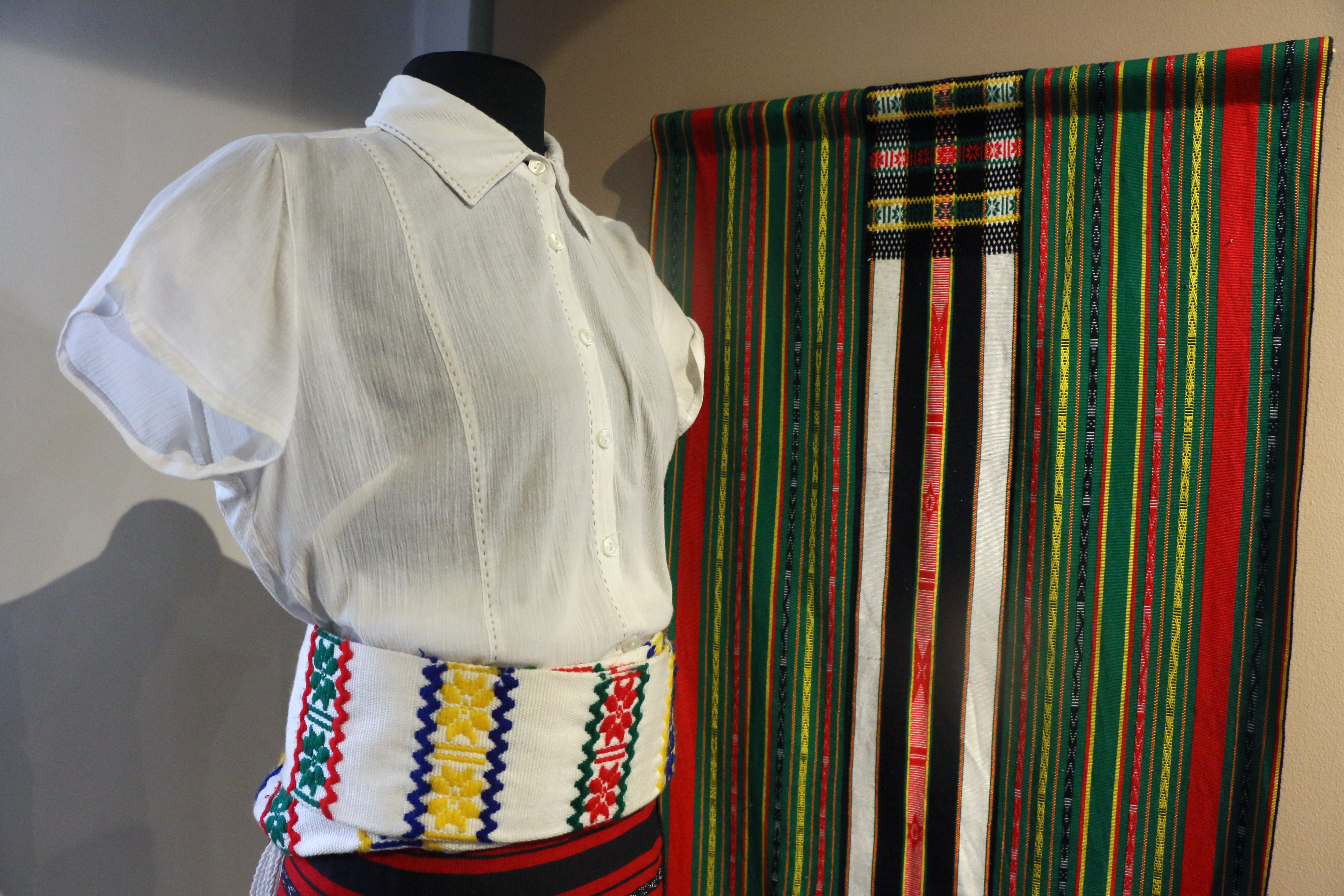 Hibla